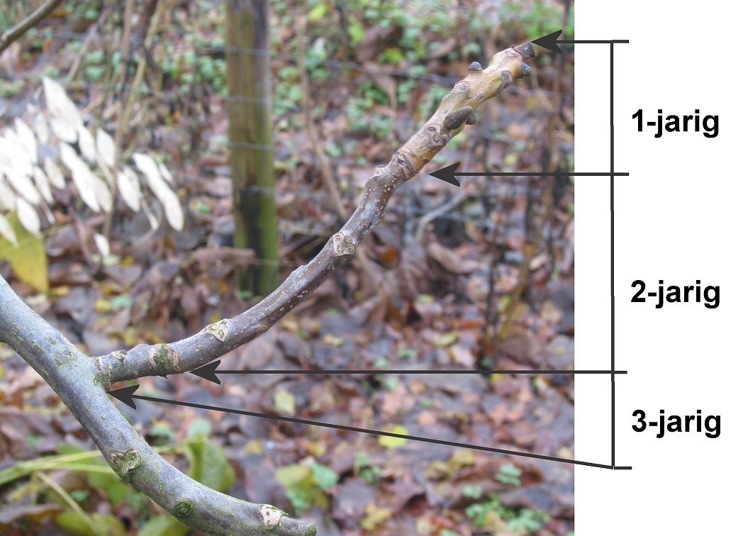 Walnut (Juglans regia) branch showing annual growth segments.